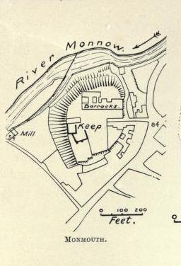 A plan of Monmouth Castle from Armitage, E., 1904 April, 'The Early Norman Castles of England' English Historical Review Vol. 19 p. 209-245, 417-455 available at